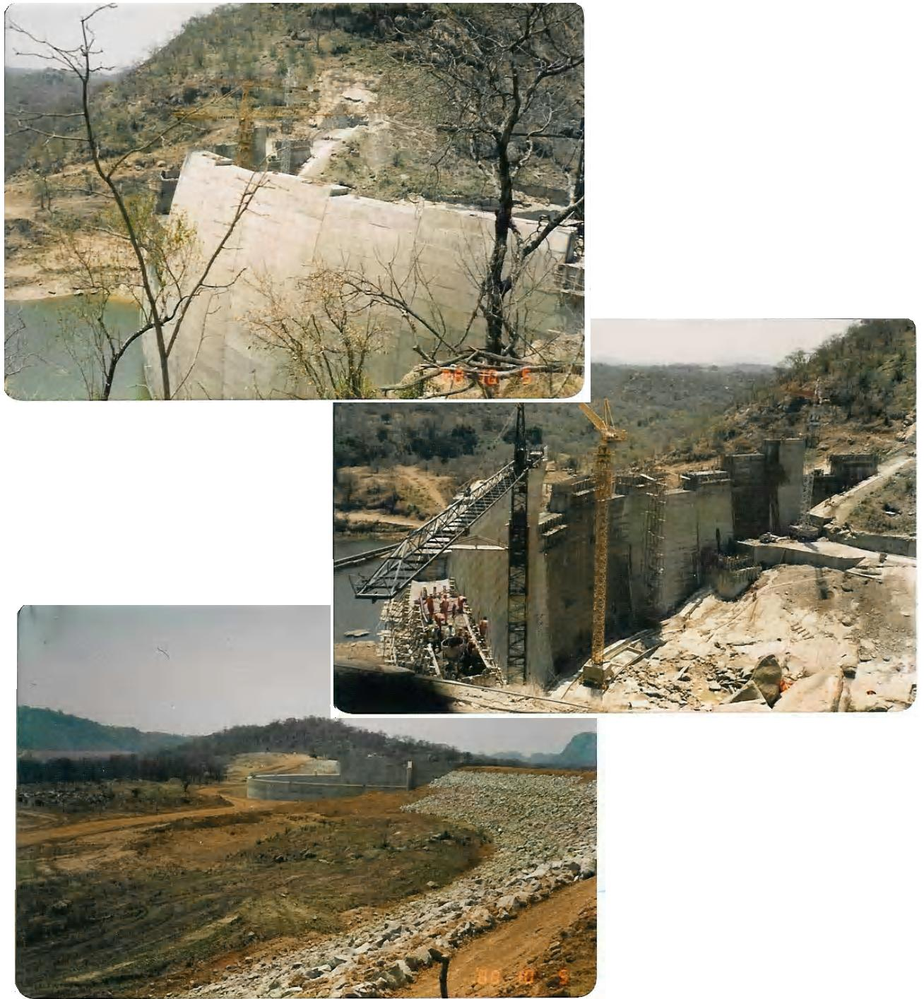 Munyuchi dam under construction.